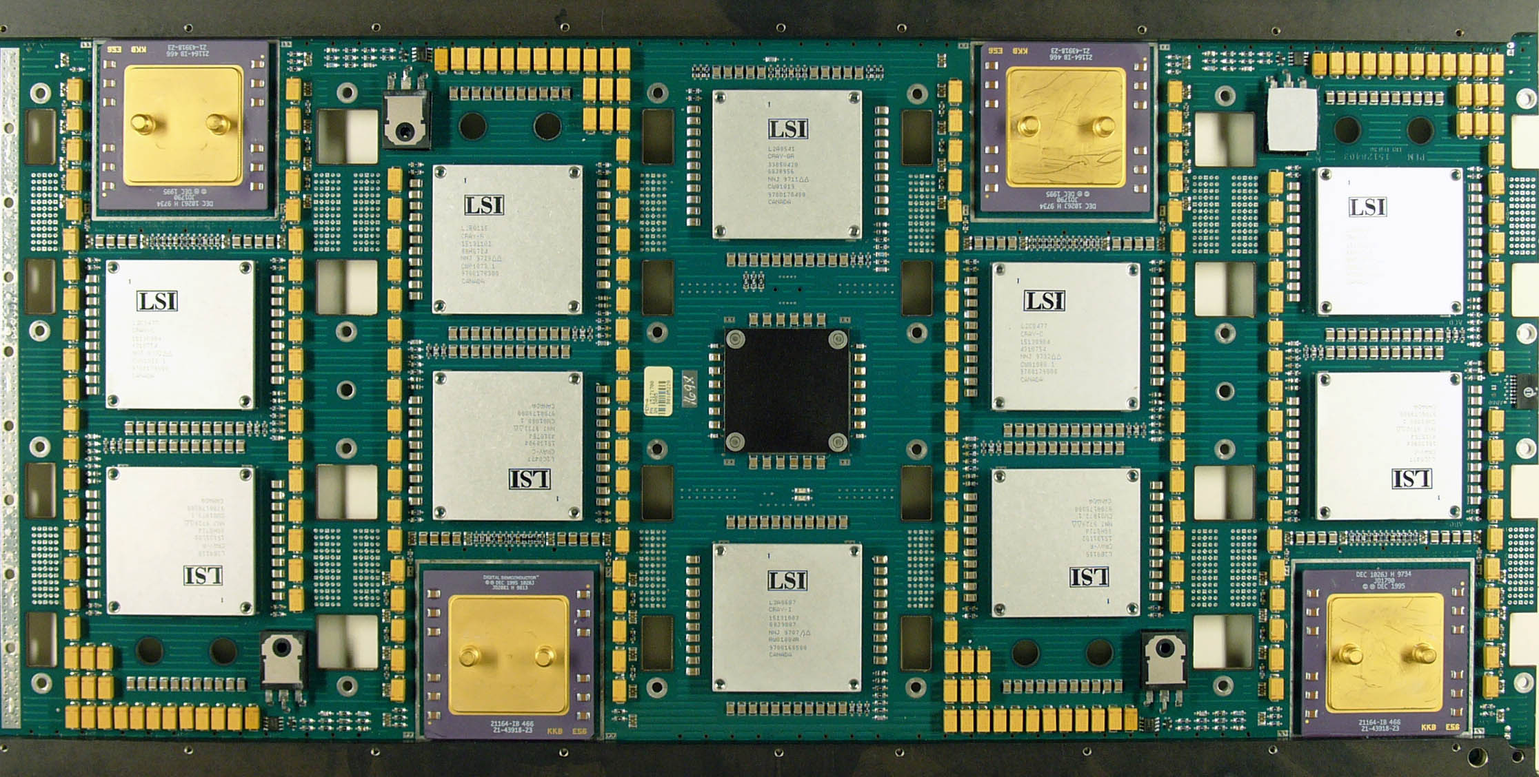 Processor board of a CRAY T3E-136/ac (=air-cooled) massive parallel computer (operational ca. 1997-2005). The related system had 136 processors in total. This board has four Dec-Alpha EV5 processors (300 MHz) with local memory chips and router chips onboard. Alpha processors were superscalar with two floating point operations per cycle. This processor board is exhibited in Klimahaus 8° Ost Bremerhaven (Forschertische).